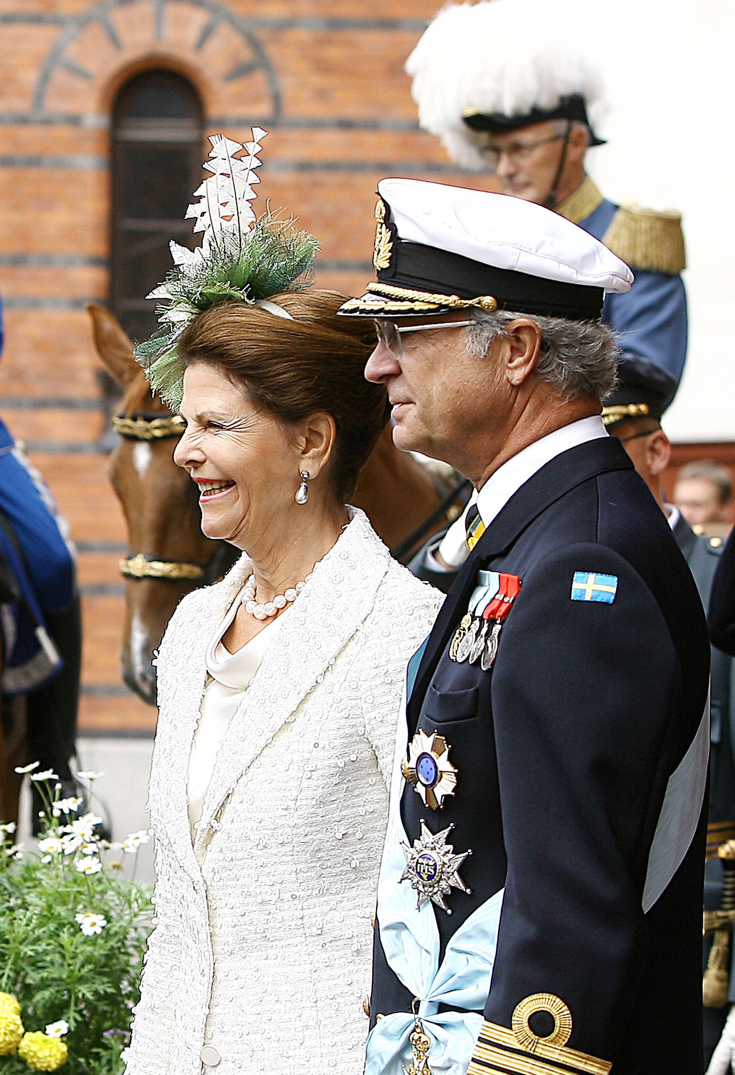 Carl XVI Gustaf and Silvia Sommerlath, King and queen of Sweden.